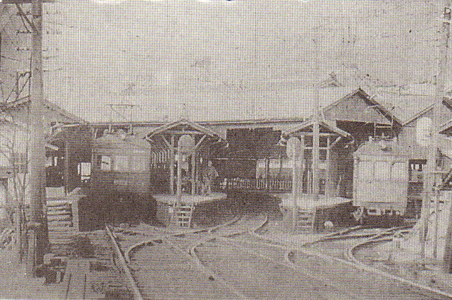 Hanshin Express Railway (Hankyu Railway) Kobe station in 1920s. Later the station was renamed to Kamitsutsui station in 1936, and abondoned in 1940.